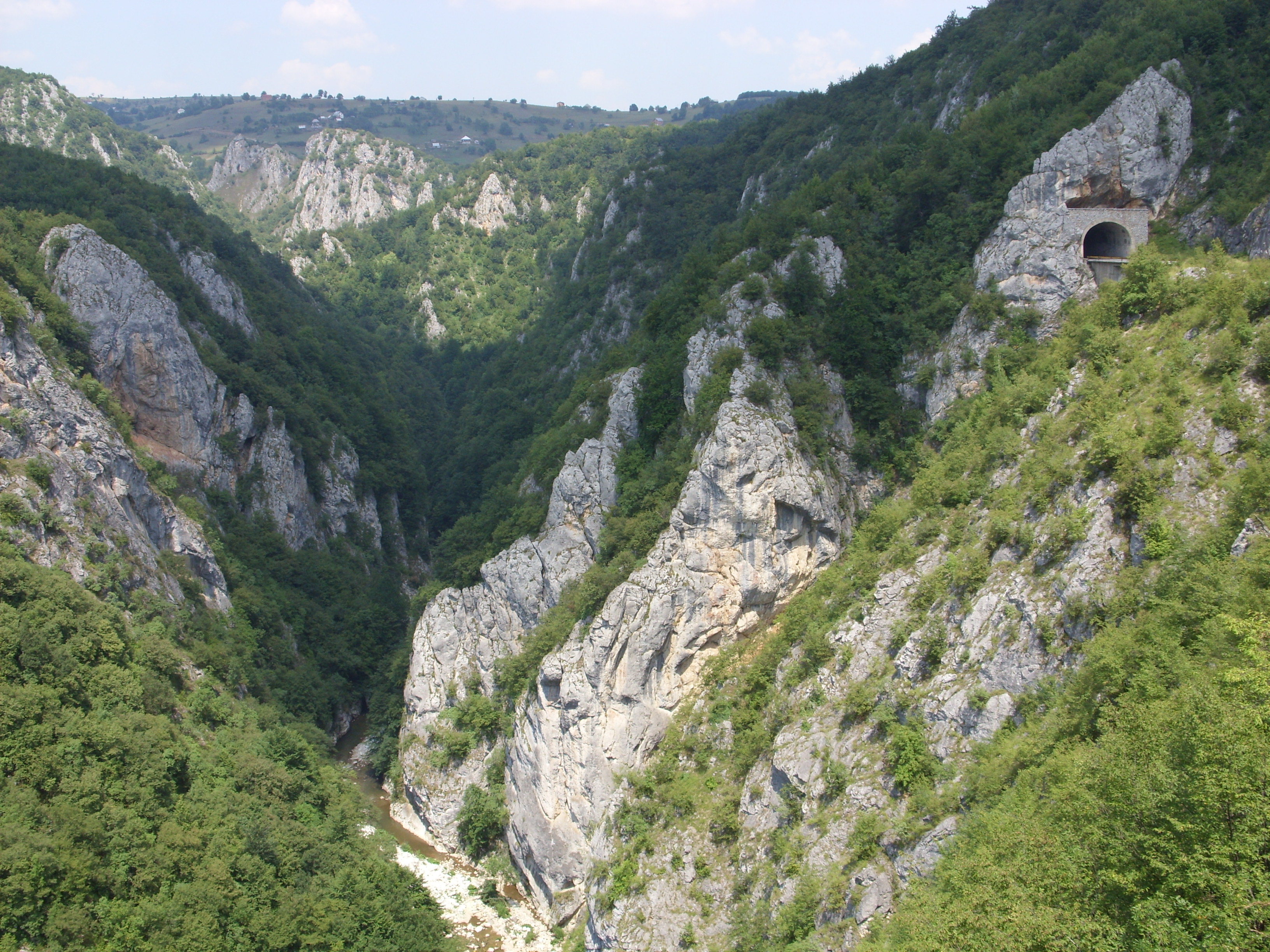 Canyon of Ibar River near Rožaje in East Montenegro.